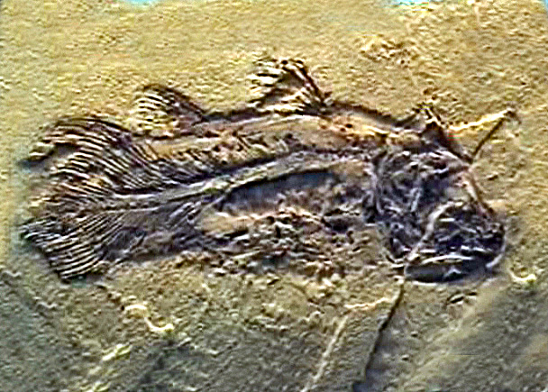 Undina penicillata, at the Naturhistorisches Museum, Wien